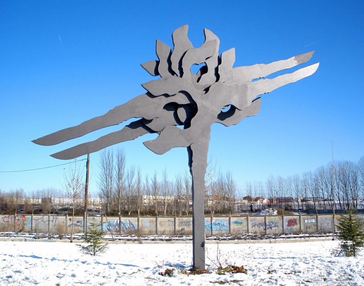 Monumento a las Víctimas de la Represión Franquista (a quienes lucharon por la libertad y la democracia), colocado en el parque Alcalde Emiliano Bajo de Miranda de Ebro el 17 de febrero de 2008. Obra del escultor Eugenio Caballo Ibáñez, basada en la obra pictórica Palo tras palo del artista mirandés José Manuel Fuentes Fernández.